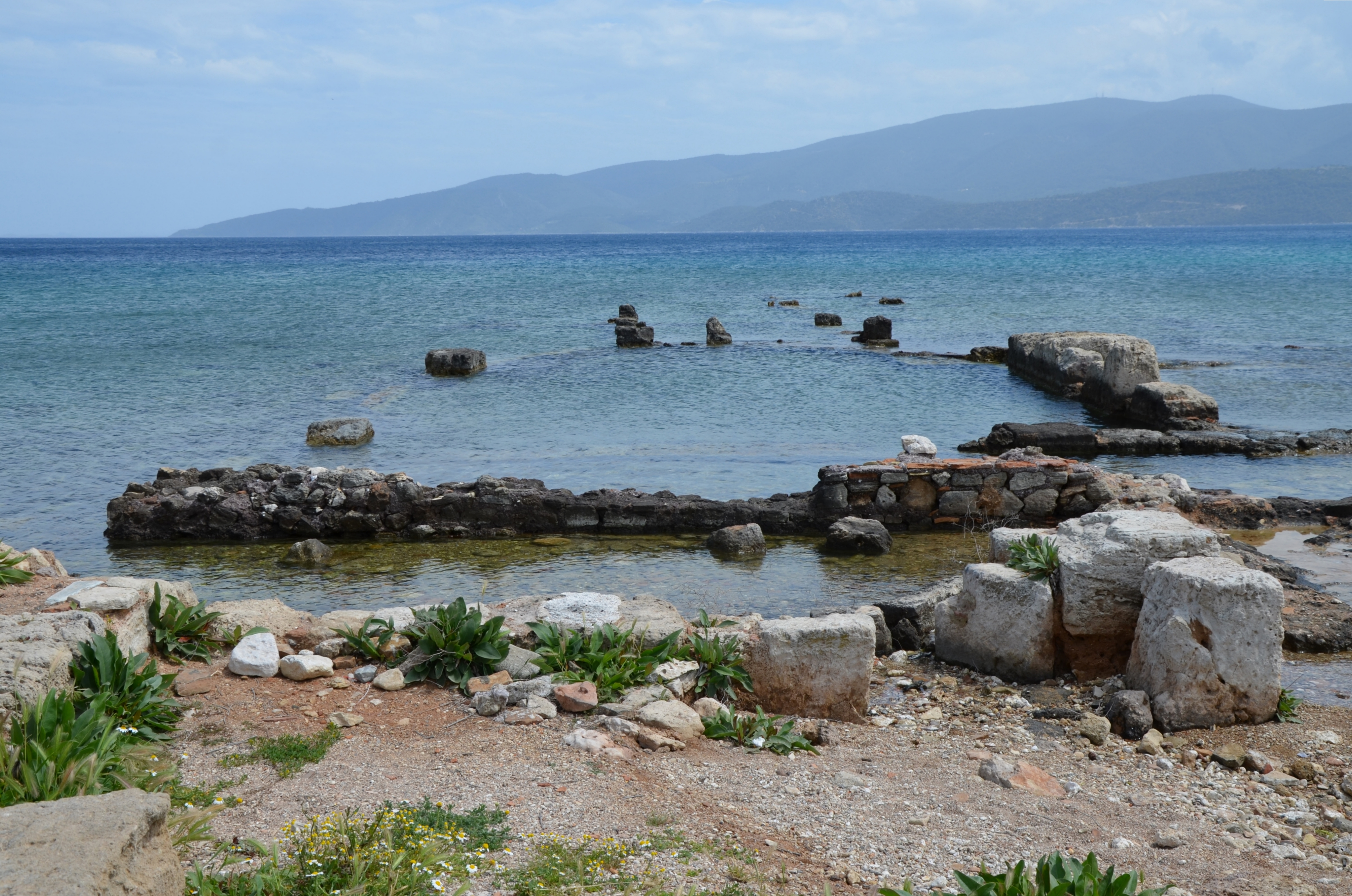 In ancient times, Kenchreai was one of the two ports of the inland city-state of Corinth. While Kenchreai served the eastern trade routes via the Saronic Gulf, Lechaion on the Corinthian Gulf served the trade routes leading west to Italy and the rest of Europe. Situated on the eastern side of the Isthmus of Corinth, Kenchreai sat at a natural crossroads for ships arriving from the east and overland traffic heading north and south between central Greece and the Peloponnese. The origin of Kenchreai is unknown, but it must have been inhabited from early times, probably in prehistory, on account of the deep natural harbor that was favorable for landing ships. The area is endowed with abundant water sources, a massive bedrock of oolitic limestone that excellent building stone, and several defensible positions with good viewpoints. The name of the site seems to derive from the ancient Greek word for millet, and the area's capacity for agricultural production is still evident. At the southwest side of the harbour, a complex was revealed comprising in part of an ancient temple structure and a rectangular apsidal building with a mosaic floor and octagonal fountain. The temple is identified as the Sanctuary of Isis, which Pausanias saw during his visit here in the 2nd century AD. Isis and Aphrodite were considered deities who protected sea-faring and they were especially worshiped at harbours.